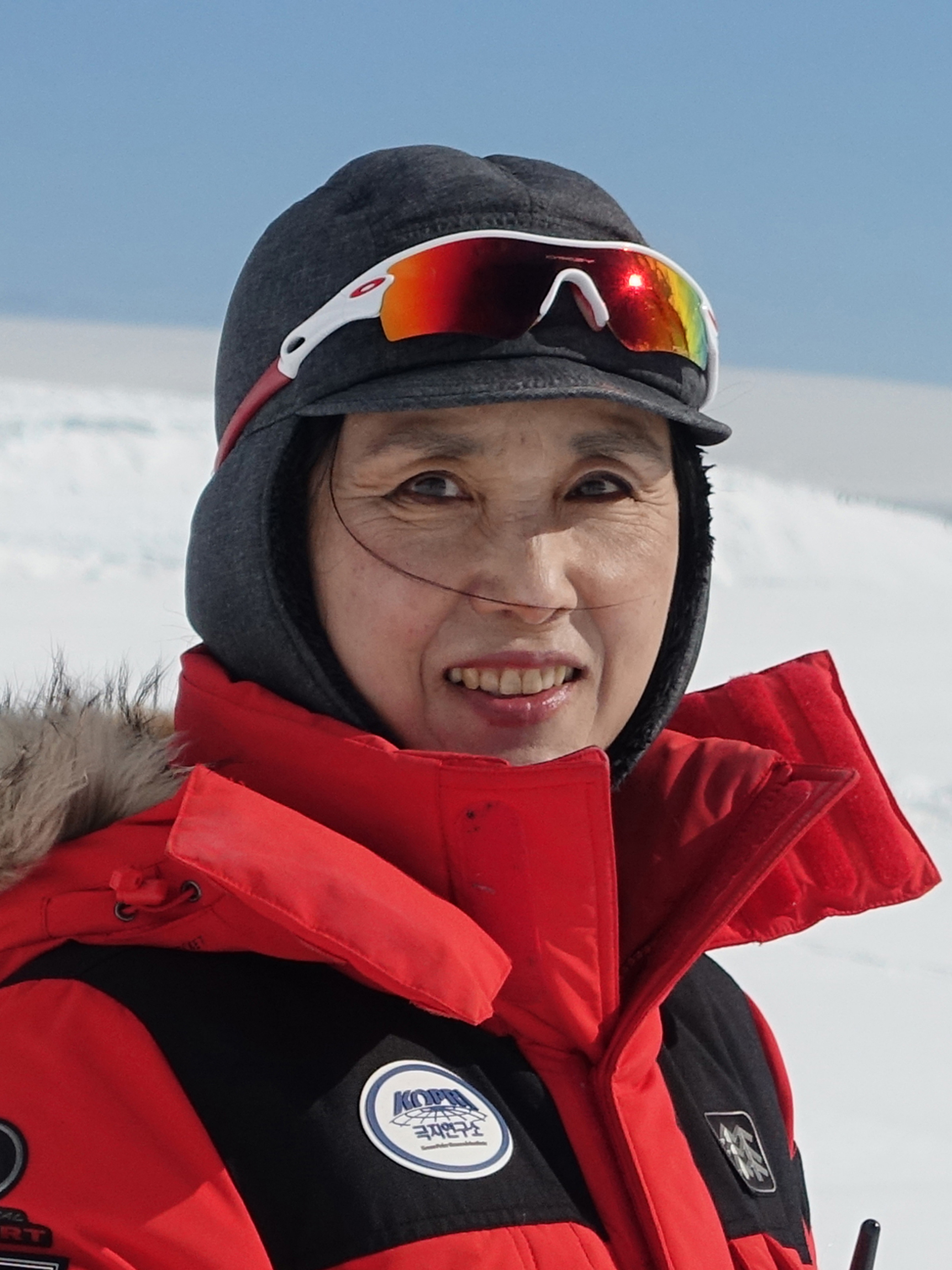 Dr. In-Young Ahn She is the first Korean woman to visit Antarctica. She has worked on Antarctic marine benthic organims for many years since the early '90s. In 2015, she had served as the station leader at the Korean Antarctic Station, King Sejong, for the first time from Asia, and spent 374 days at the station. Currently she's been studying impacts on climate change on nearshore Antarctic marine benthic communities, being affiliated with Korea Polar Research Institute.